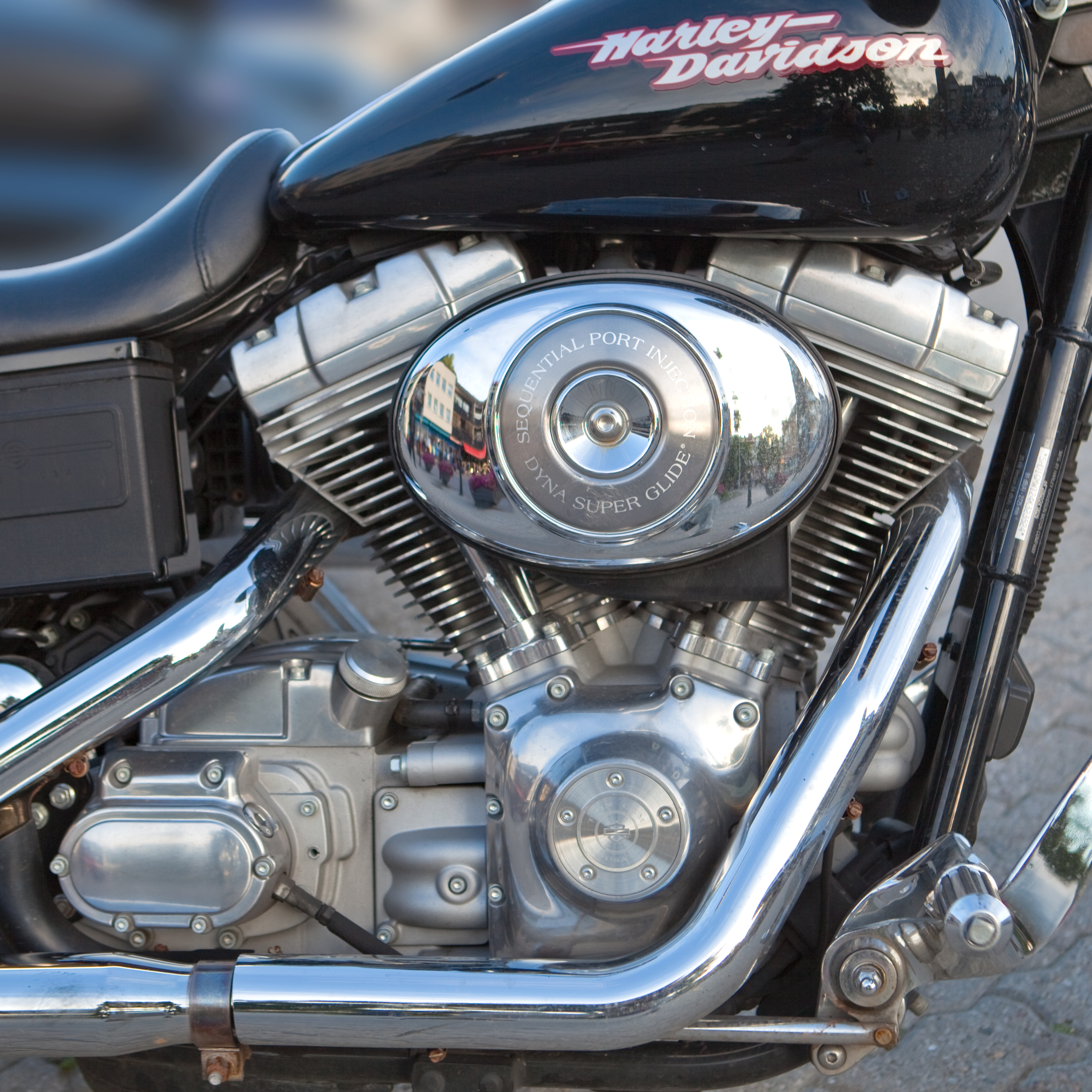 Harley-Davidson Dyna Super Glide Twin Cam motorcycle engine. Photo Vaxholm 2012